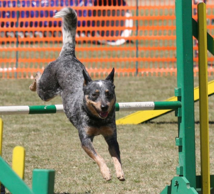 Australian Cattle Dog clearing a jump in an agility competition.